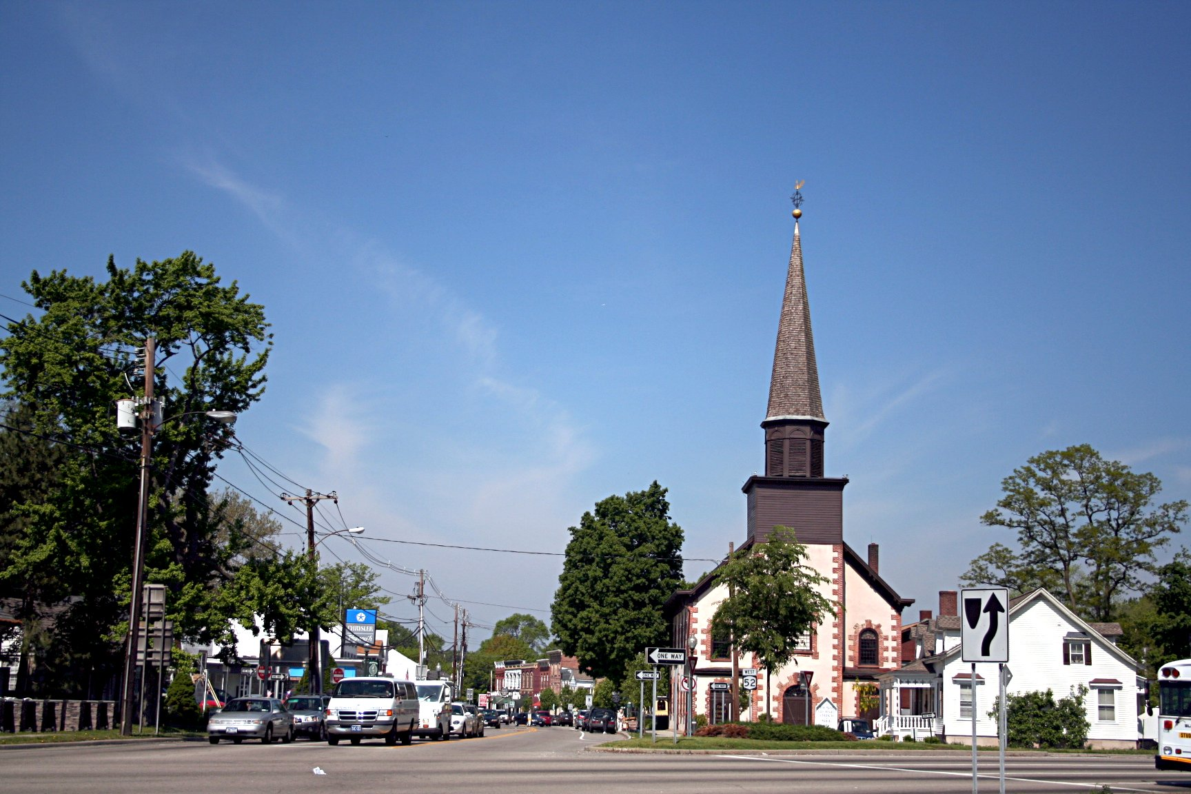 Photograph of the entrance to the Village of Fishkill, New York, United States of America